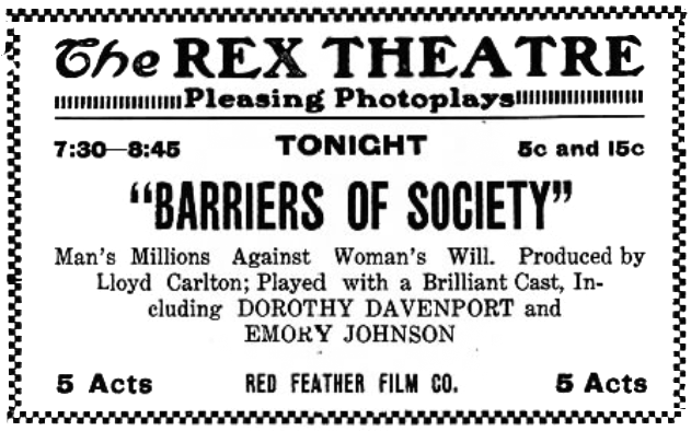 Newspaper ad for Barriers of Society